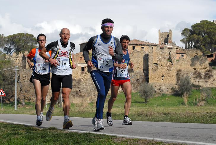 Strasimeno ultramaratona